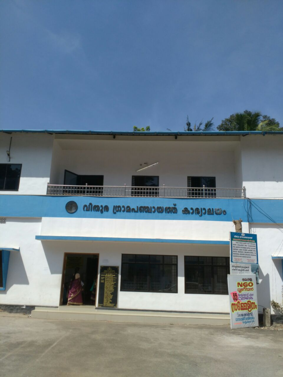 Office building of Vithura Grama Panchayat located at Koppam , Vithura